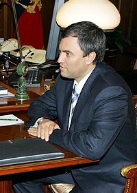 THE KREMLIN, MOSCOW. Deputy head of the State Duma Viacheslav Volodin.